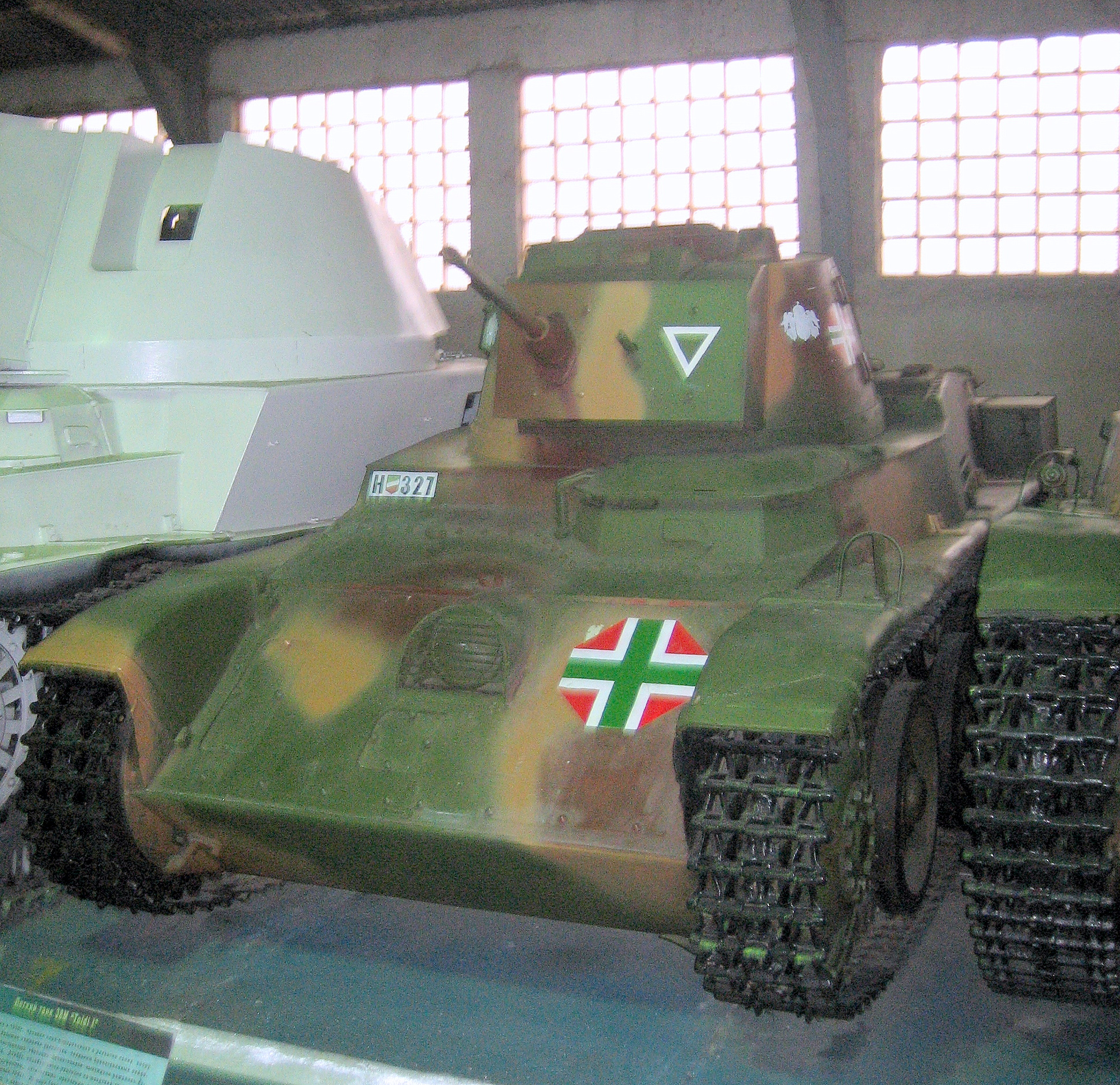 Hungarian Toldi I light tank at Kubinka Tank Museum